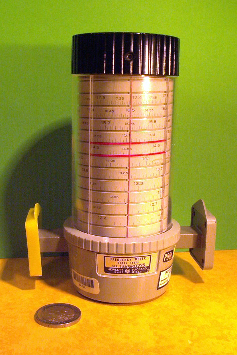 Ku band (12-18 GHz) absorption wavemeter. This device was used to measure the frequency of microwaves before frequency counters for those frequencies were available. It consists of an adjustable microwave cavity calibrated in frequency.